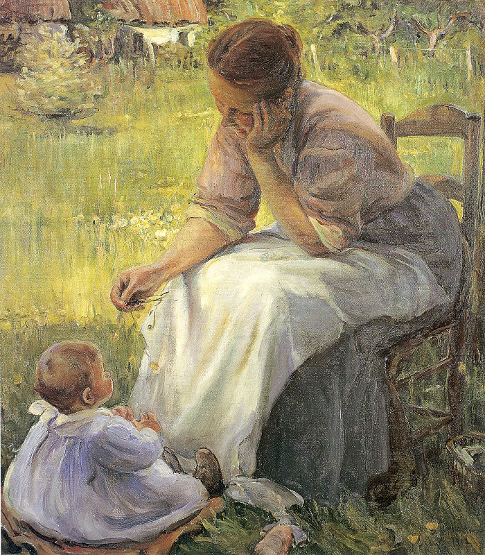 Meditation